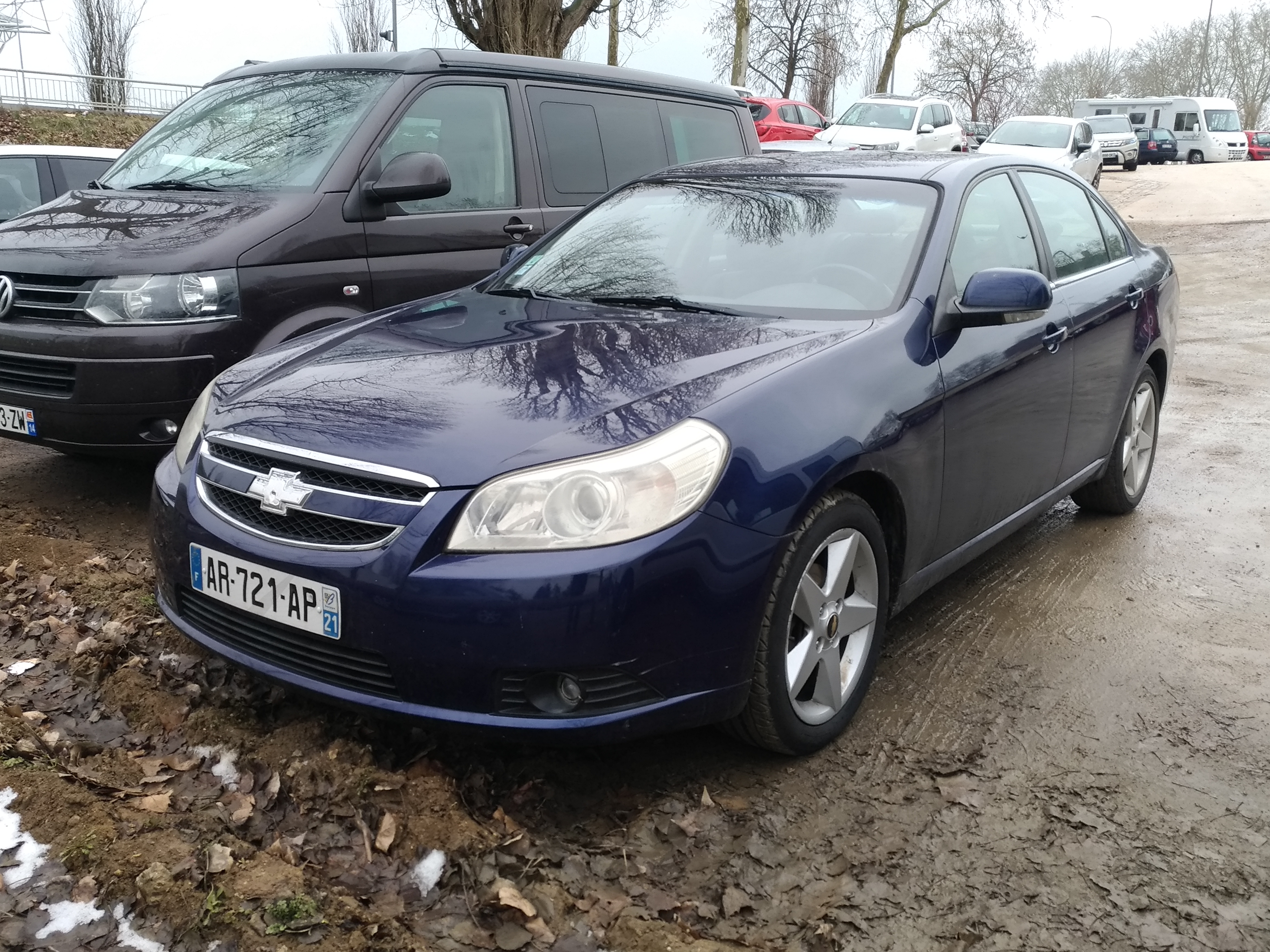 Chevrolet Epica